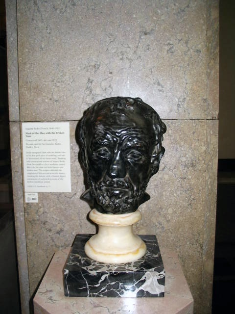 Auguste Rodin (French, 1840-1917): head of the Man with a Broken Nose, old man's face, bronze, Philadelphia museum